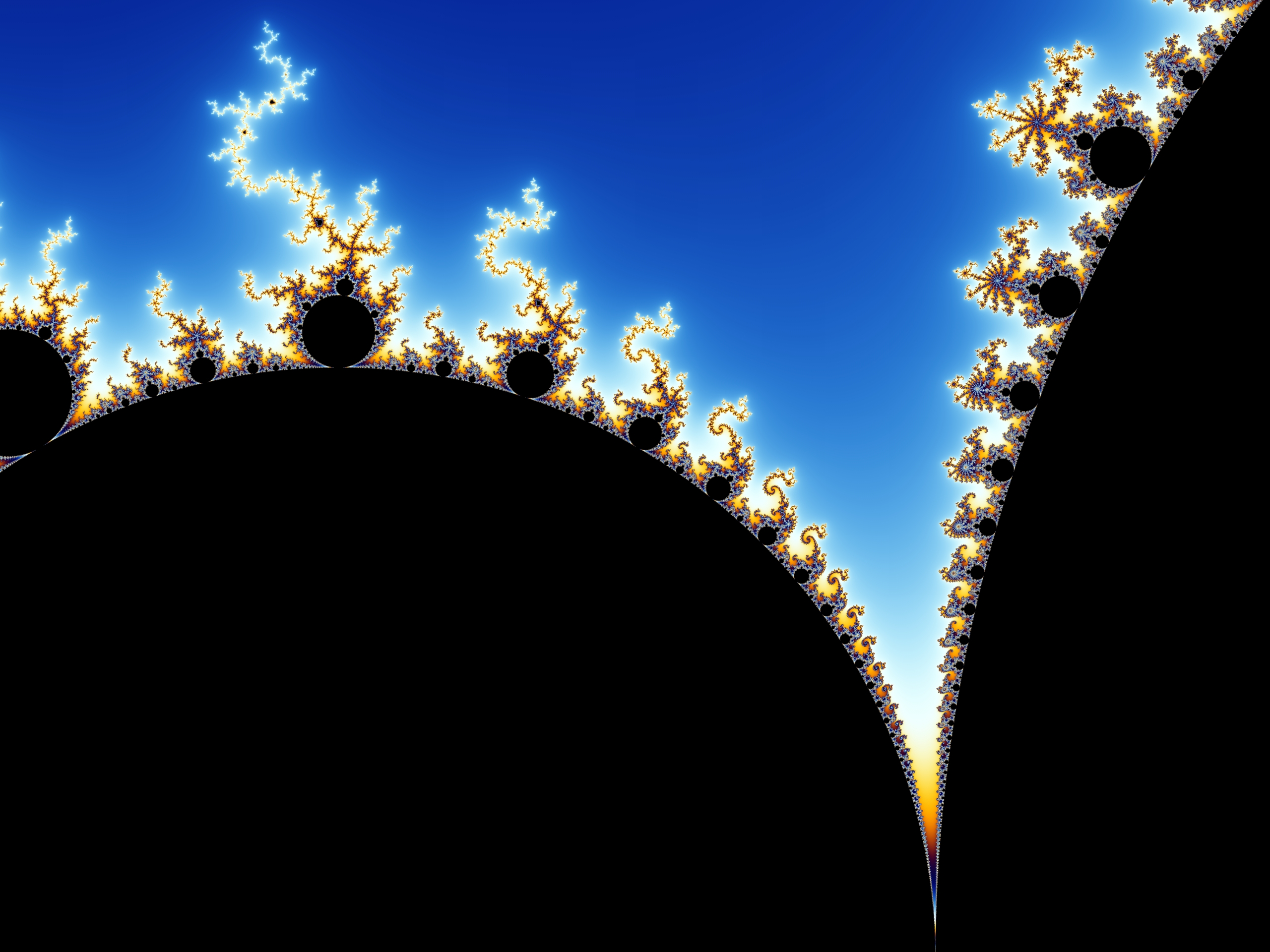 Partial view of the Mandelbrot set. Step 1 of a zoom sequence: Gap between the "head" and the "body" also called the "seahorse valley". Coordinates of the center: Re(c) = -.875,91, Im(c) = .204,64 Horizontal diameter of the image: .531,84 Magnification relative to the initial image: 5.785,4 Created by Wolfgang Beyer with the program Ultra Fractal 3. Uploaded by the creator.